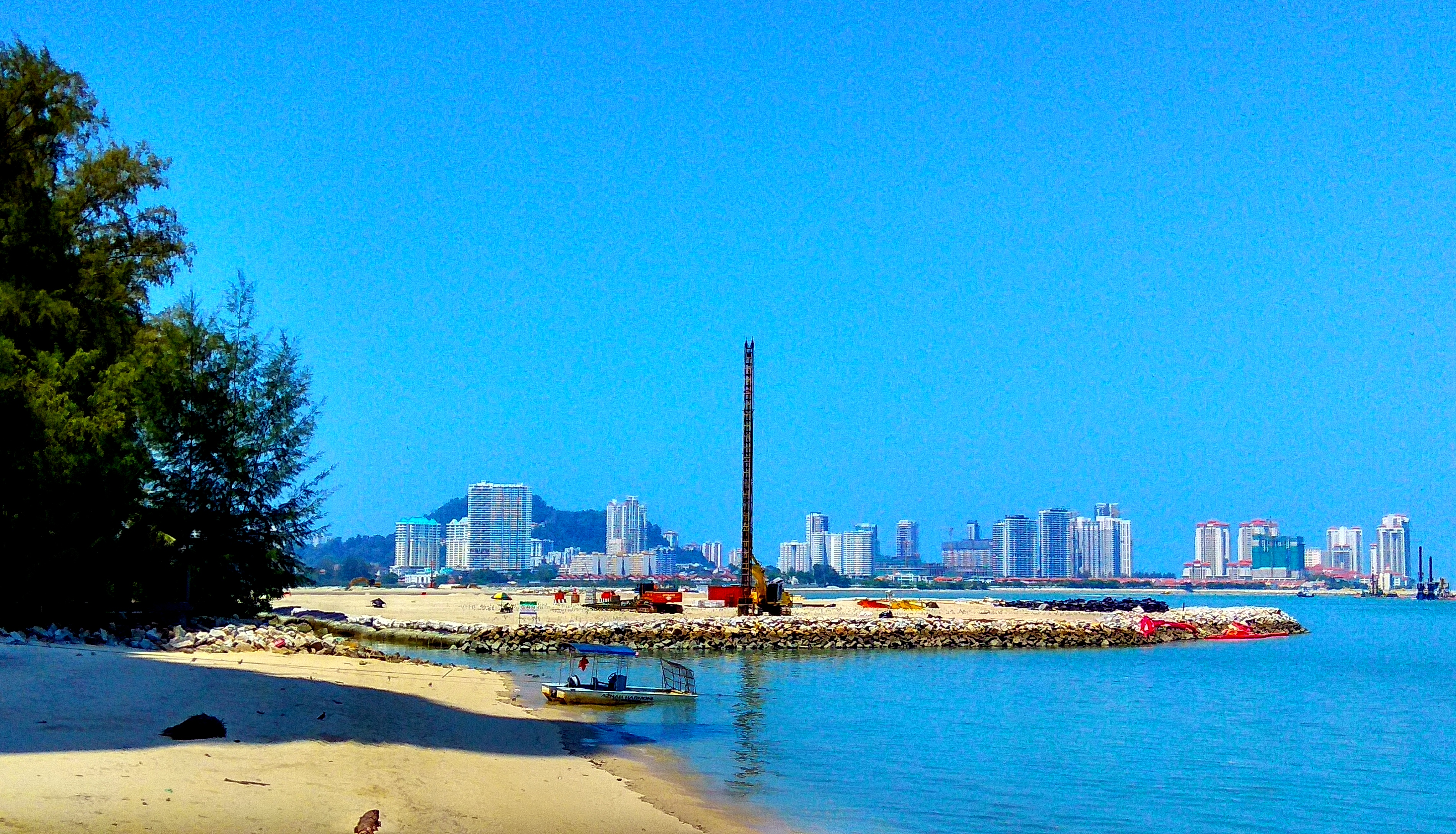 Gurney Wharf reclamation progress in April 2017